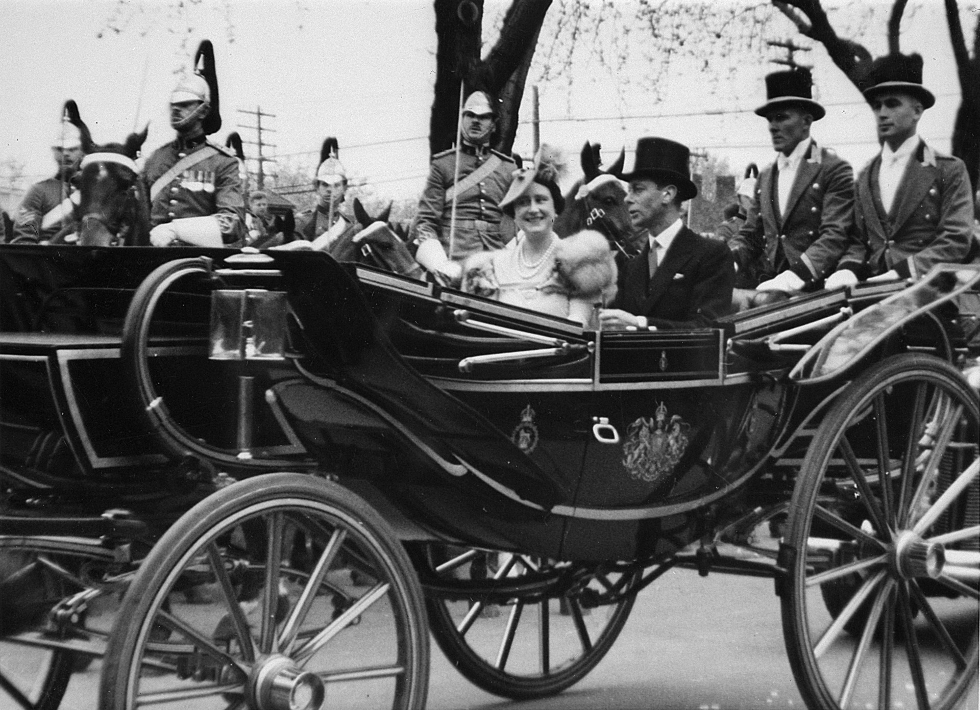 Photograph of George VI, King of England, and Elizabeth, his queen consort, attending the King’s Plate at the Woodbine race track during their 1939 visit. Title: George VI visits Woodbine Race Track Creator: Dundas Photo Service Date: May 22, 1939 Identifier: 986-5; T 31735 Format: Picture Rights: Public domain More information: This image was published in connection with "Royal Fanfare", a TD Gallery exhibit running from September 22 to December 2, 2012.